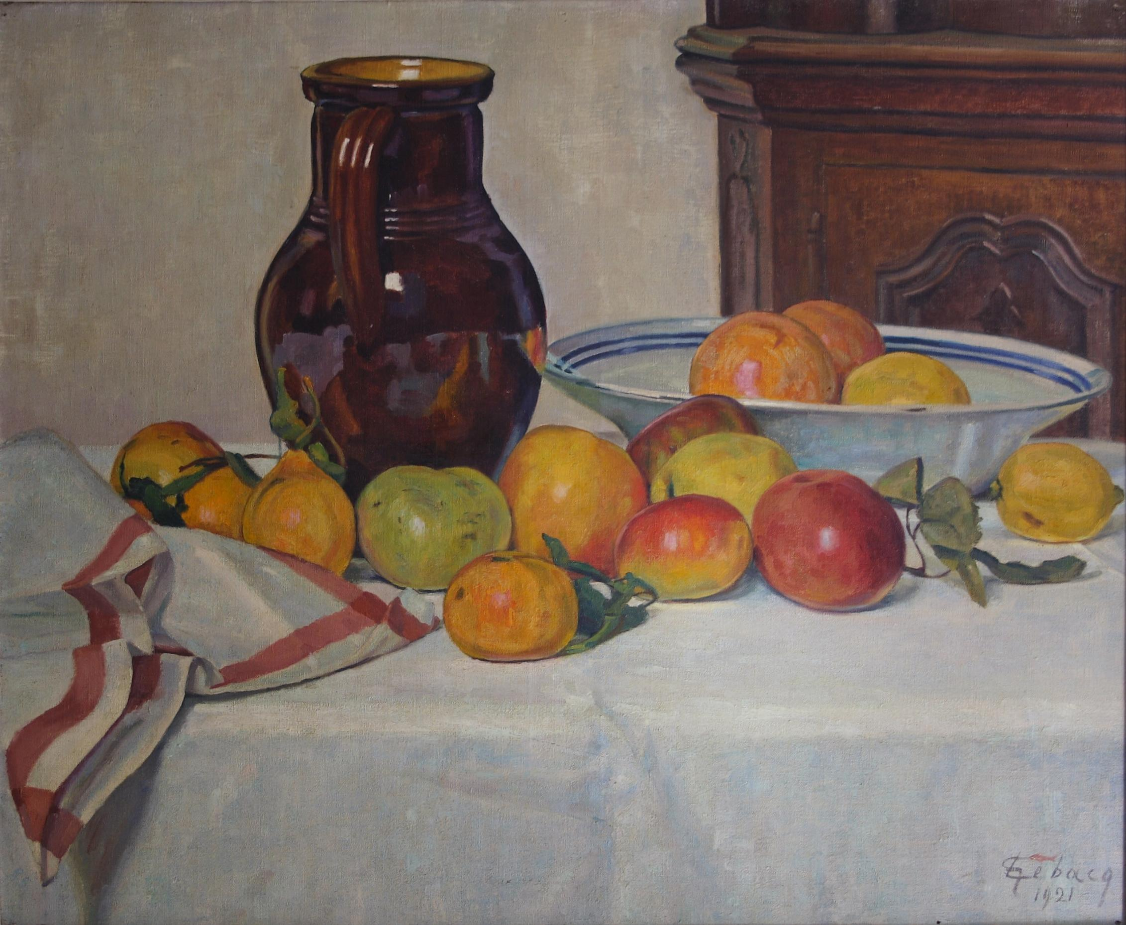 Fruits by Georges Emile Lebacq.